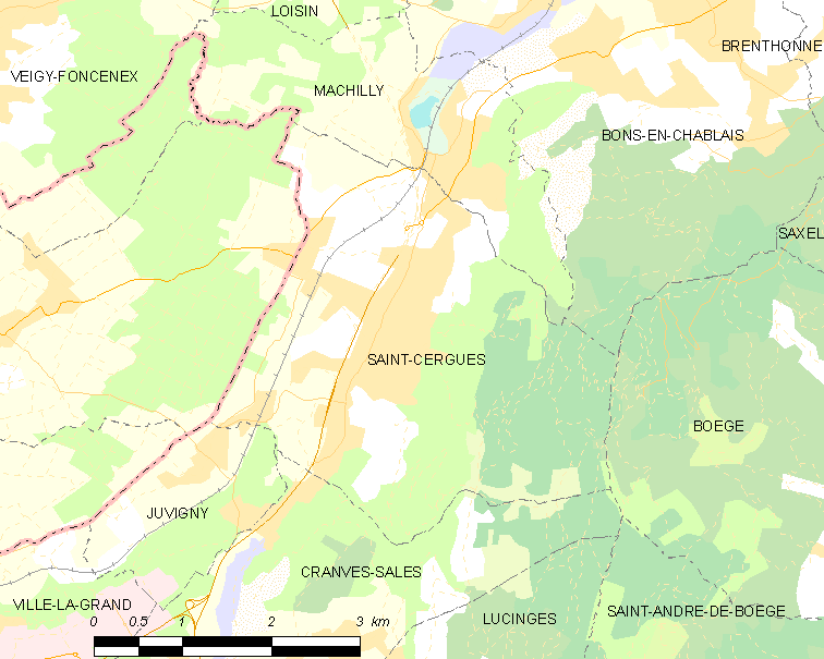 Map of French municipality Saint-Cergues